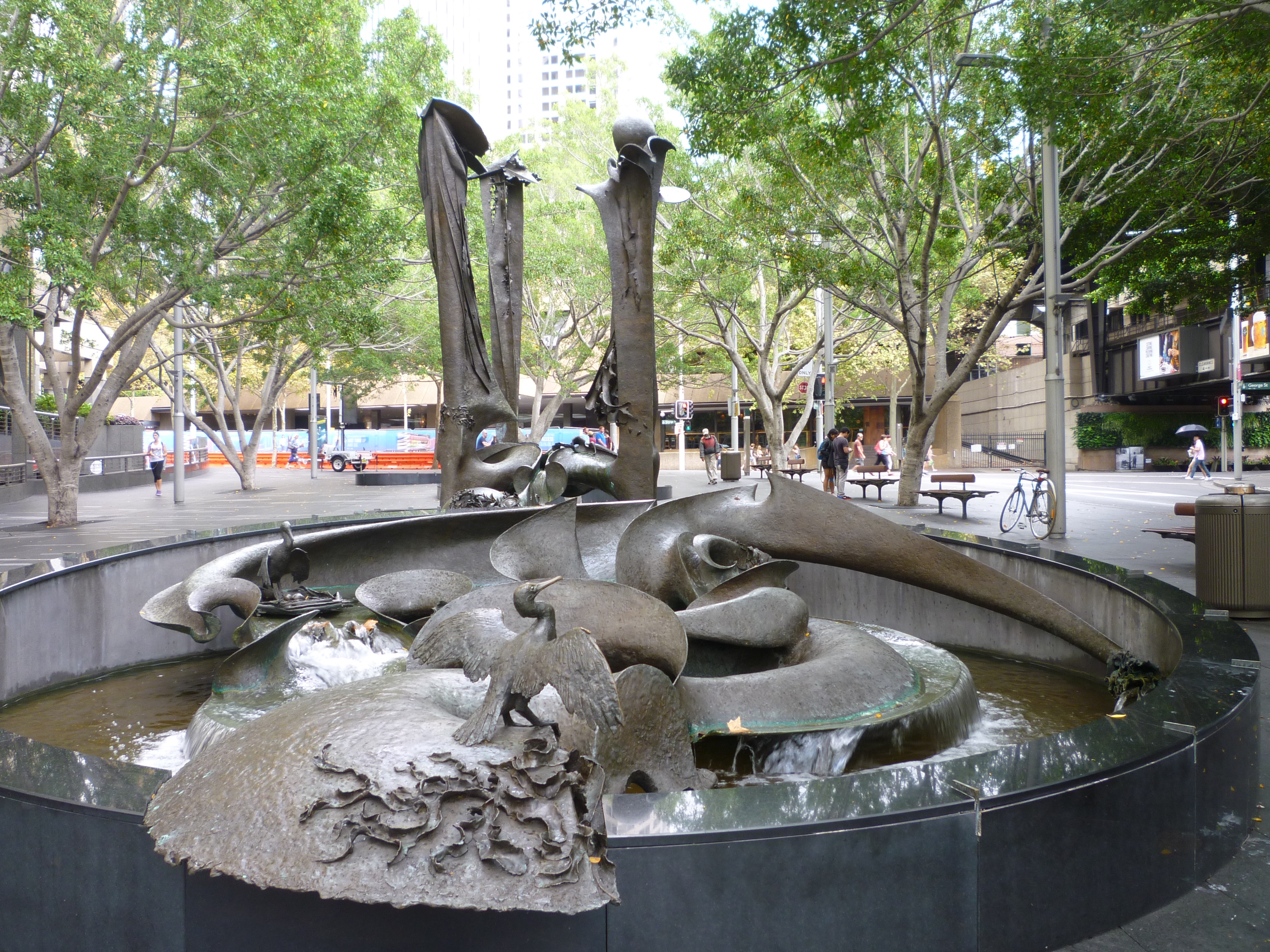 Fountain in Herald Square Sydney by Stephen Walker